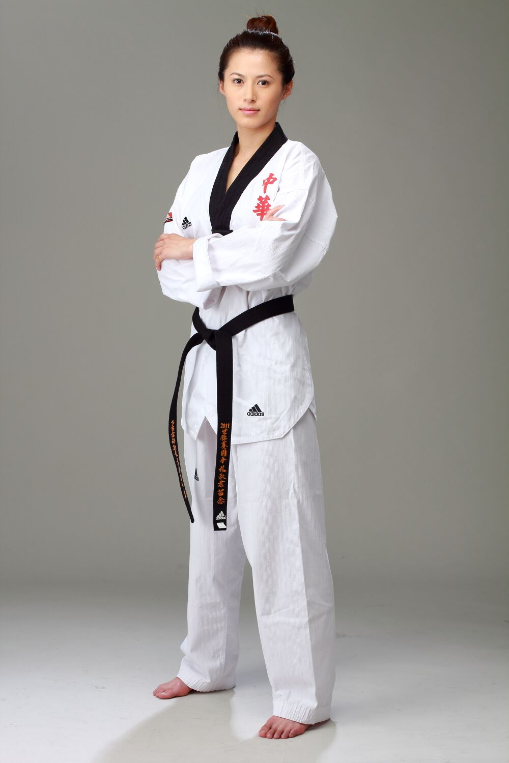 TAEKWONDO PLAYER.